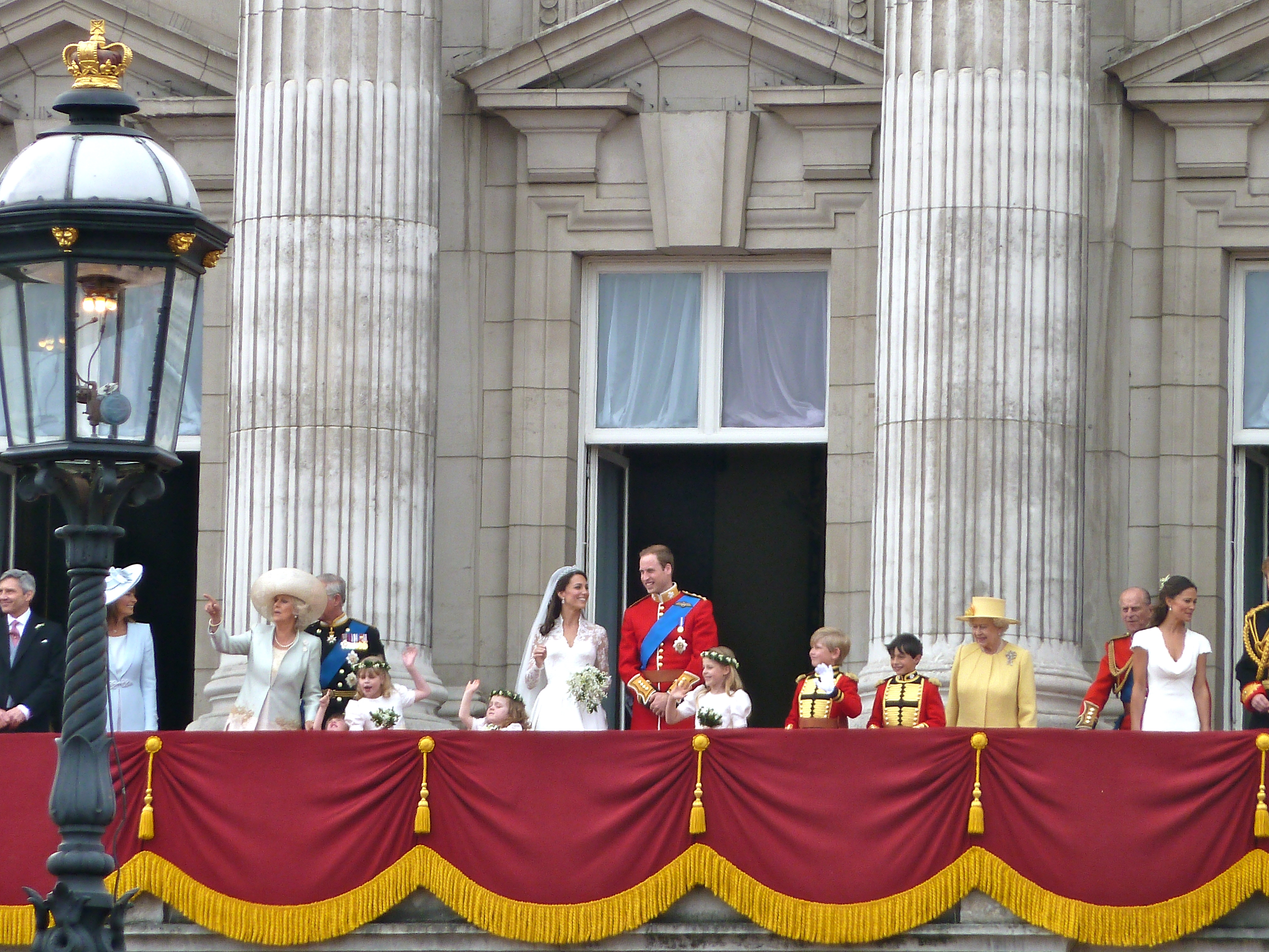 The British royal family on Buckingham Palace balcony after Prince William and Kate Middleton were married.